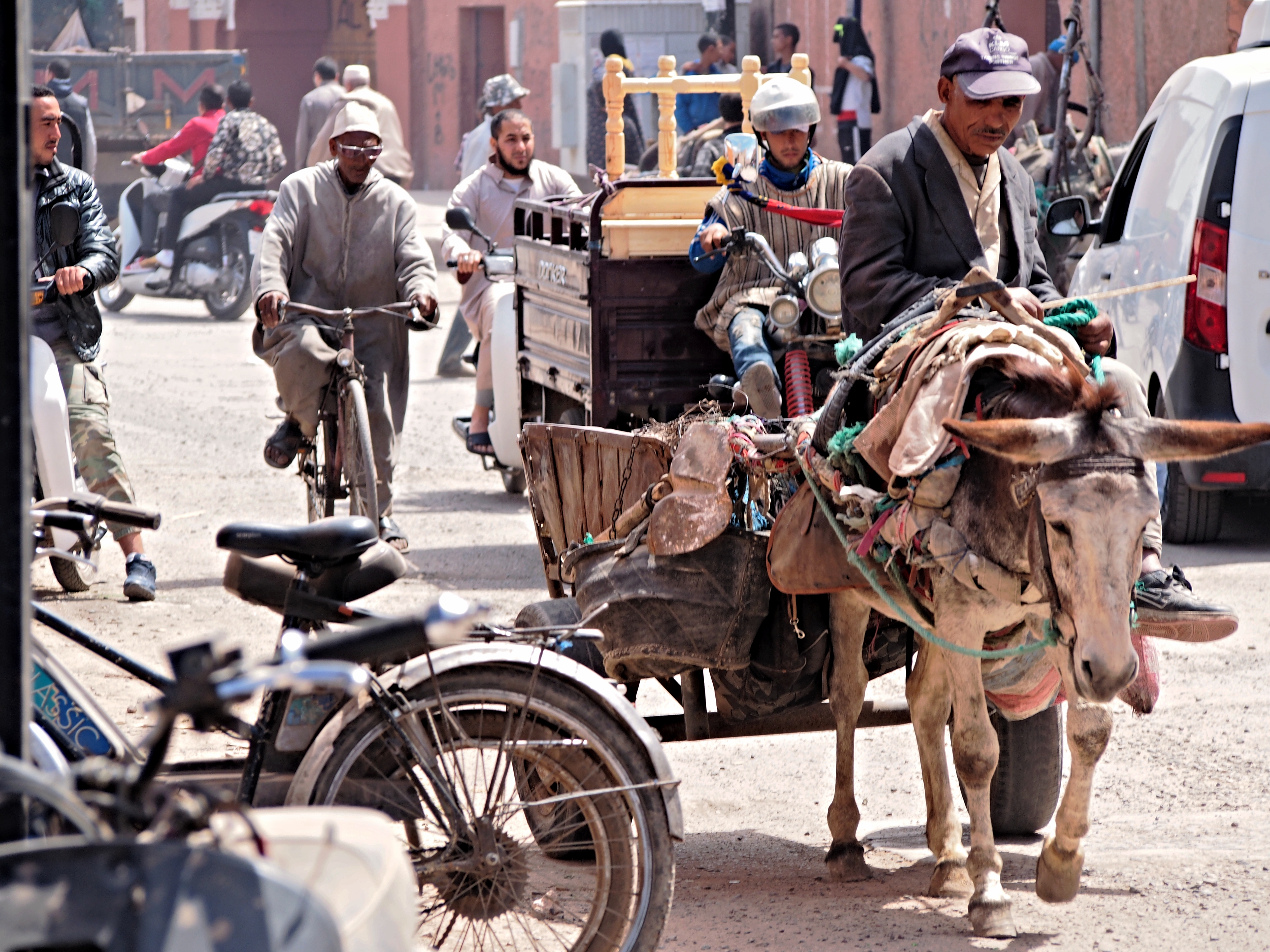 Street scene in Marrakesh, east of the old city center This is an image with the theme "Africa on the Move or Transport" from: Morocco